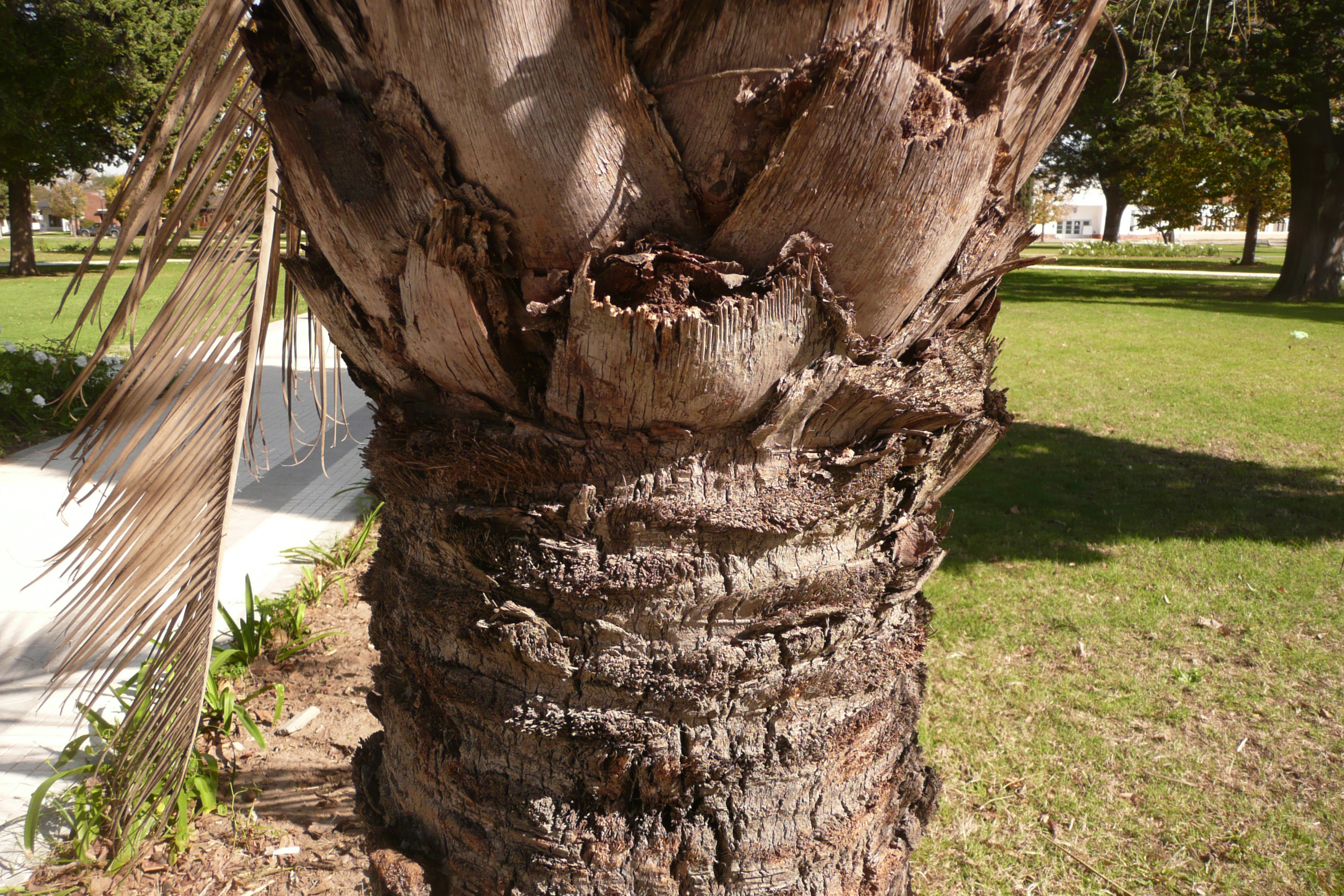 Palm in Fortín Olavarría, Buenos Aires, Argentina.